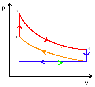 p-V diagram of the otto cycle